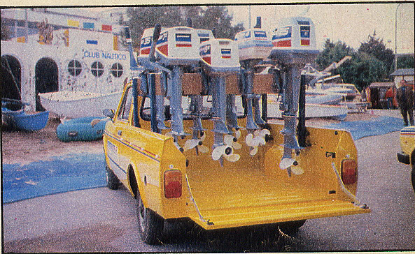 Seat 127 motores.